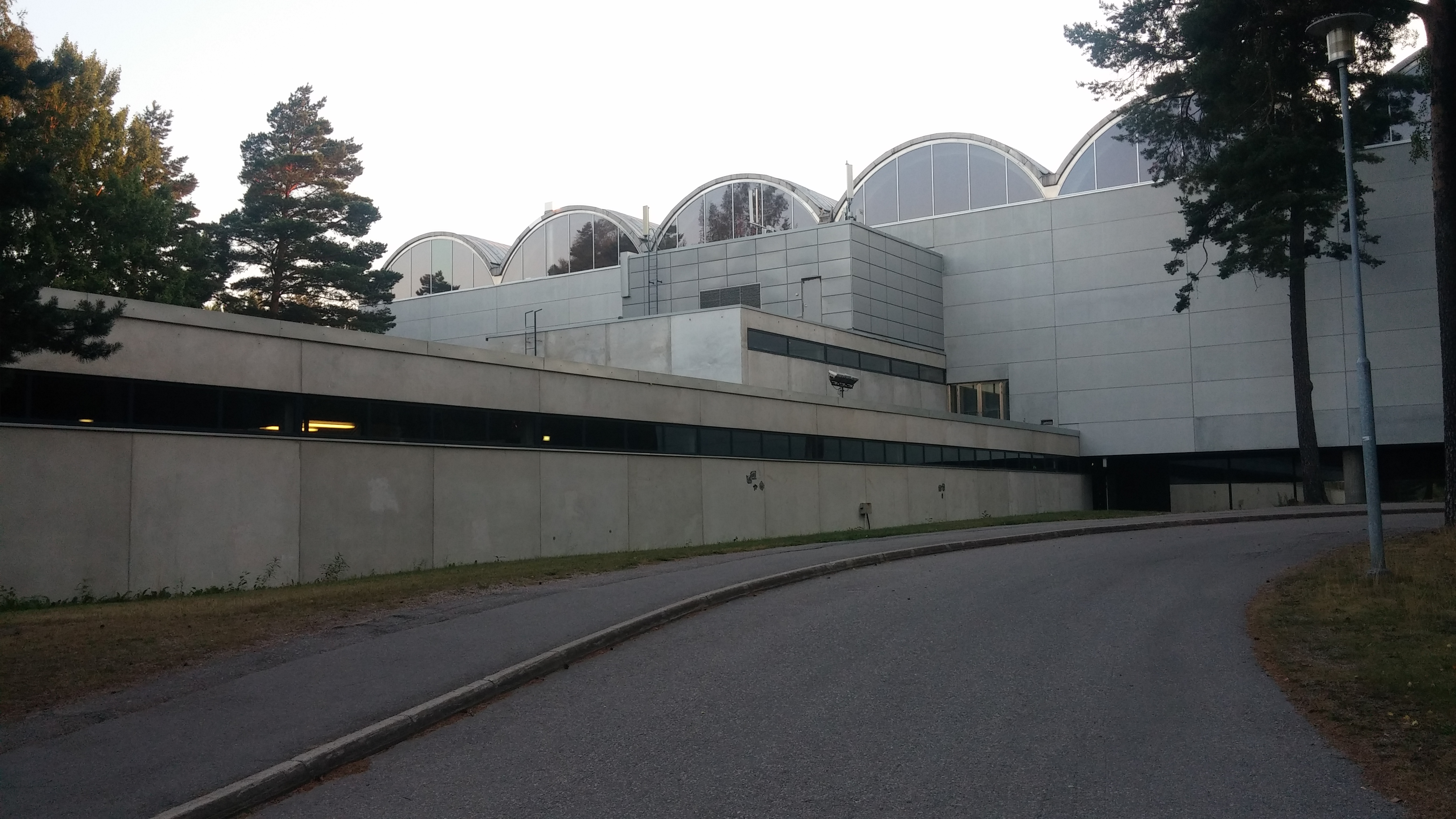 Pirkkolan liikuntapuisto is a sports venue in Helsinki